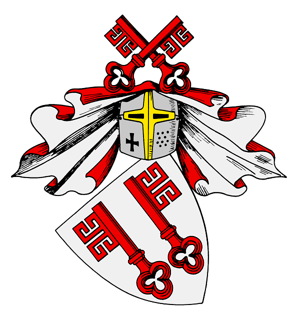 Coat of arms of the Blücher family